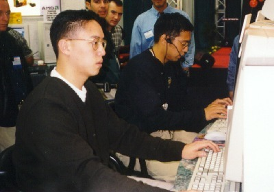 Thresh (foreground) competes in a video game competition for a vendor at Comdex. This was probably at the AMD booth.